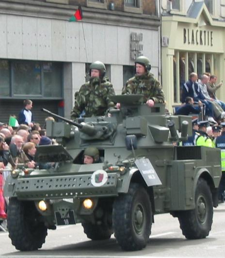 Irish Army AML-20, at 2006 Easter Parade, Dublin.